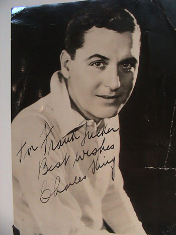 Photo of Charles King autographed